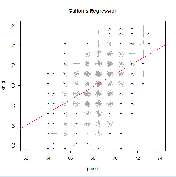 Galton's Linear Regression after the example given in the R software HistData package maintained by Michael Friendly and al..